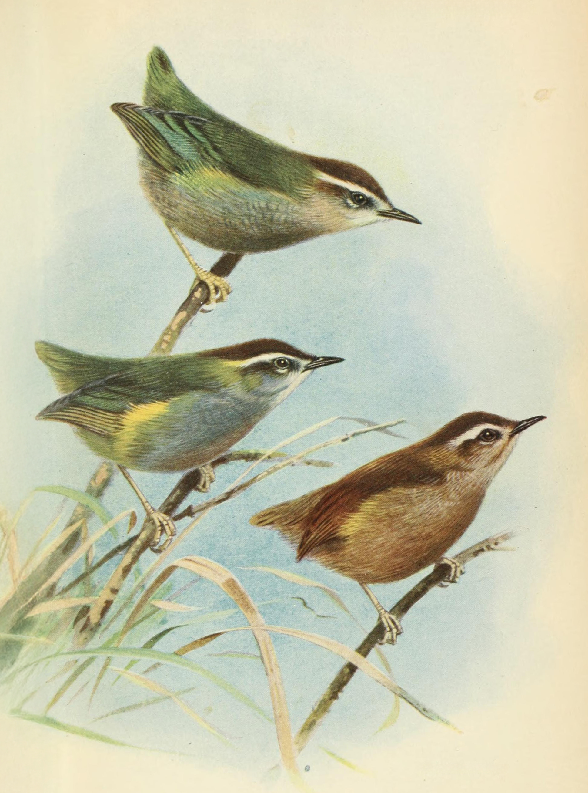 Xenicus longipes = Bushwren (Xenicus longipes, cat.), Subspecies: X. l. longipes Xenicus stokesi = Bushwren (Xenicus longipes, cat.), Subspecies: X. l. stokesi Hand coloured lithographs showing Xenicus longipes stokesi and Xenicus longipes longipes. Plate XII from Birds from New Zealand, the Kermadec Islands, and the Islands to the South of New Zealand. Artwork by John Gerrard Keulemans (1842-1912): Dutch bird illustrator. THE IBIS, QUARTERLY JOURNAL OF ORNITHOLOGY. VOL. V. Eighth Series 1905.